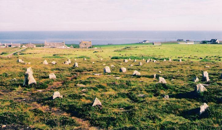 Author: User:Ron.McKinnon Source: Photograph taken September 4th 1996 by the author. This file is being donated to the Wikipedia.